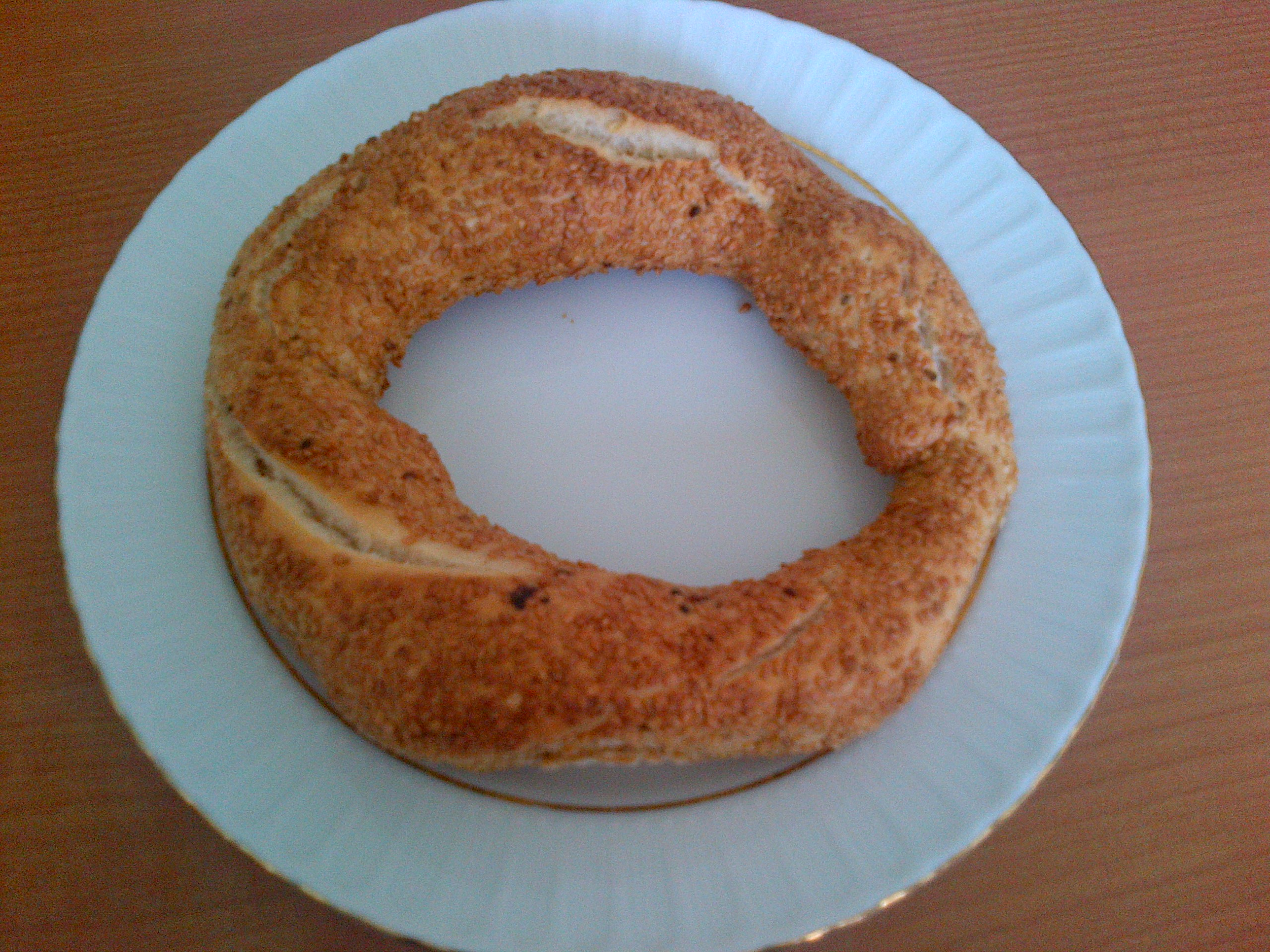 Simit in a plate: Ankara, Turkey.